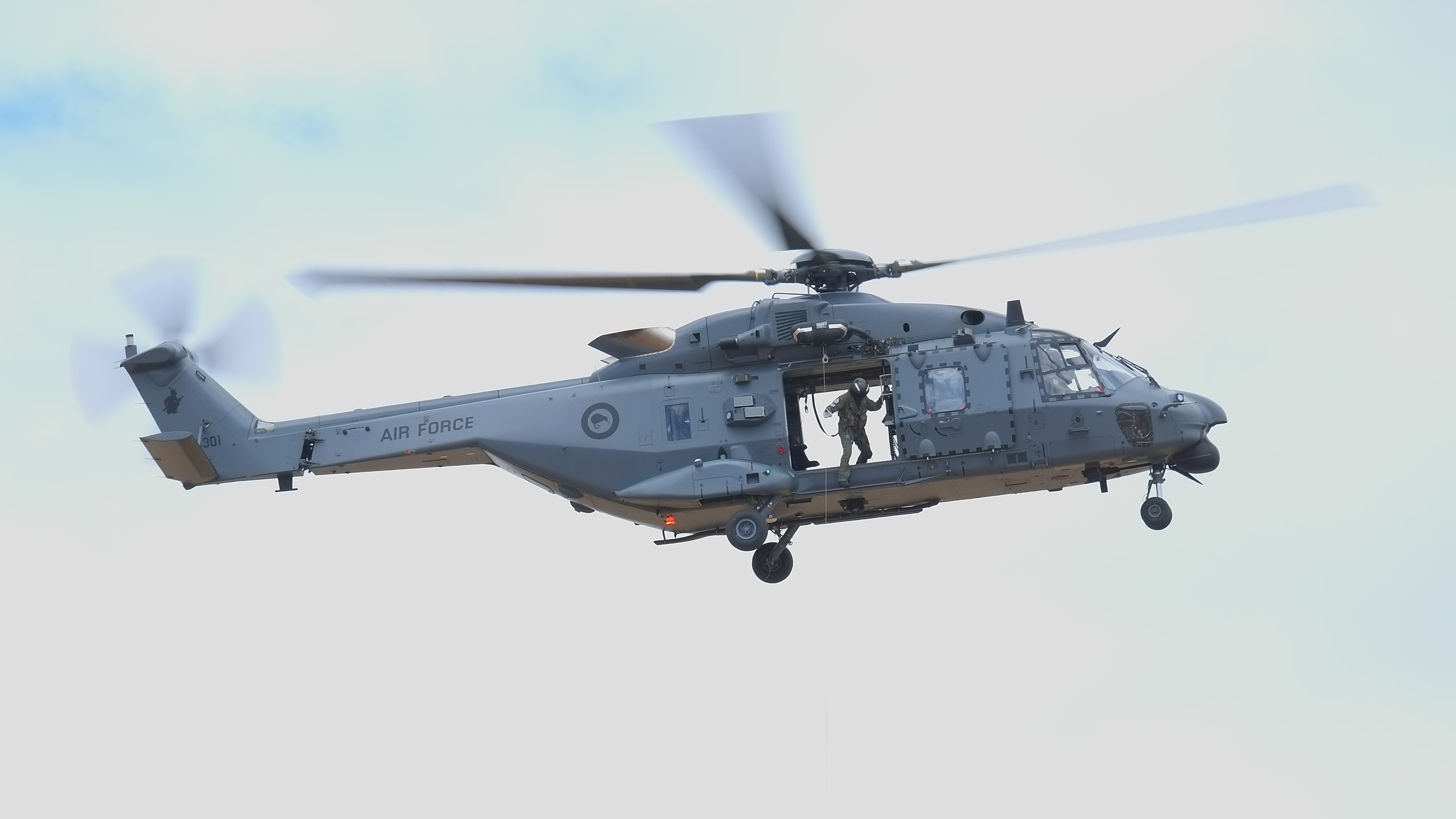 RNZAF NH90 hovering and operating winch, crew member standing in open door